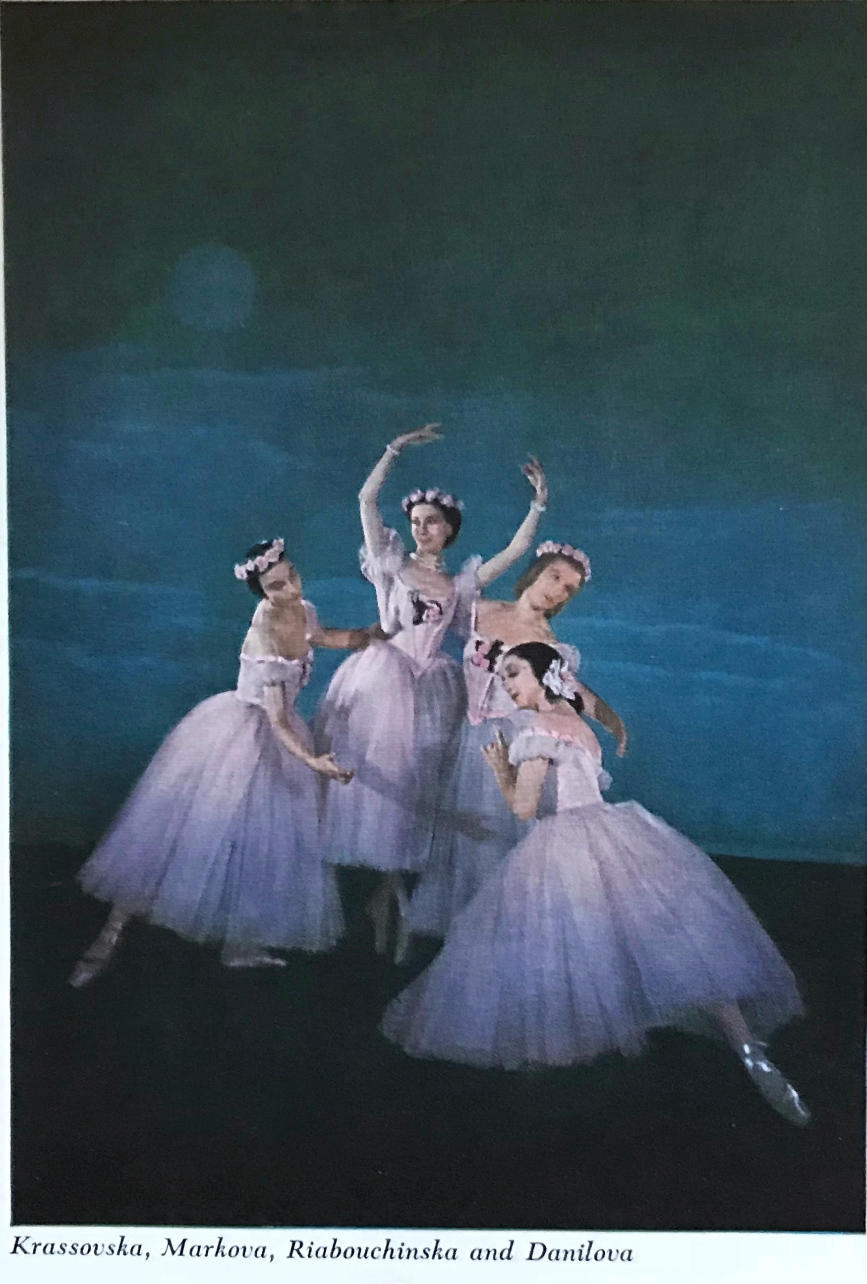 From a postcard of Krassovska, Markova, Riabouchinska and Danilova